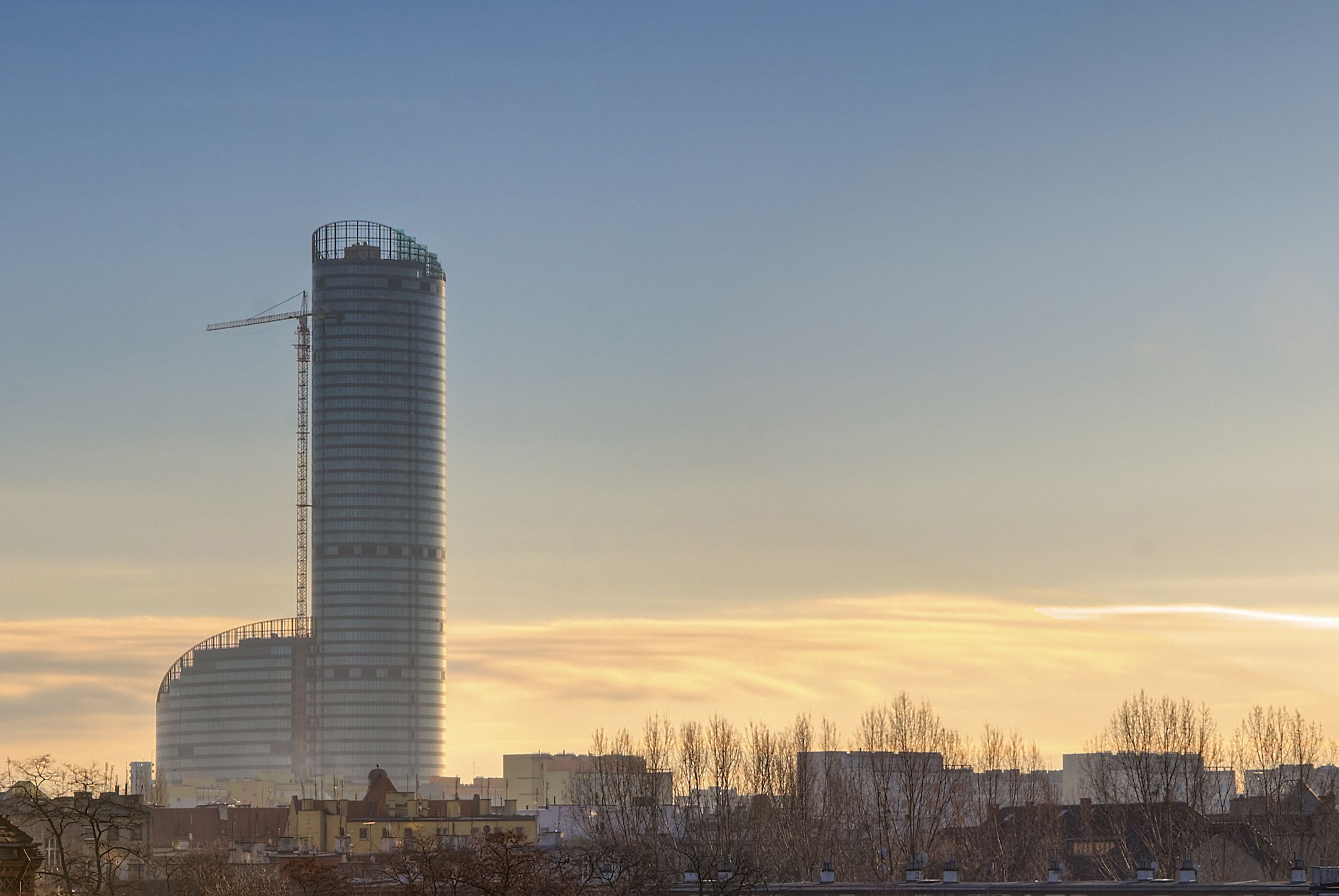 Sky Tower in January 2012. Visible last tower crane dismantled